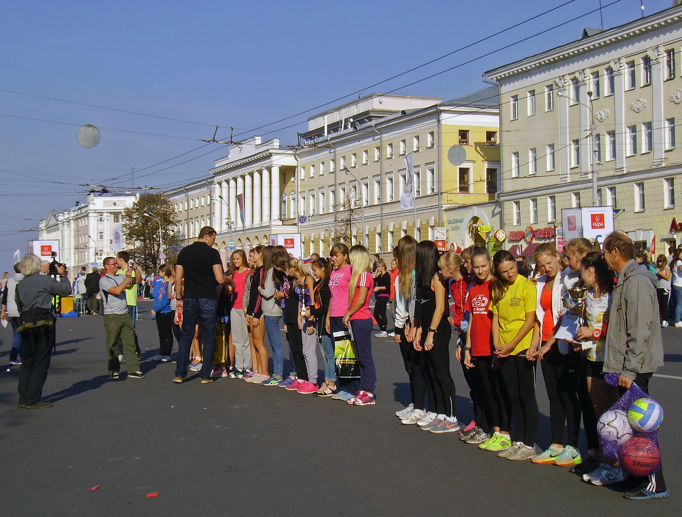 Cross Country of Nation 2014. Nizhny Novgorod, Russia. Rewarding of conqurerors at main square